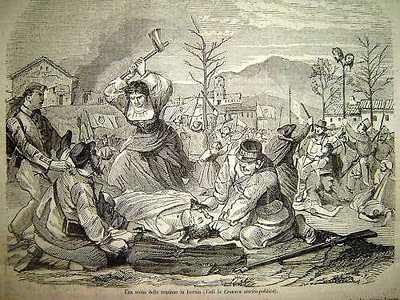 Lynching of liberals pro-union of Italy during Isernia legitimist riots (1860) made by popular and bourbonic fellows